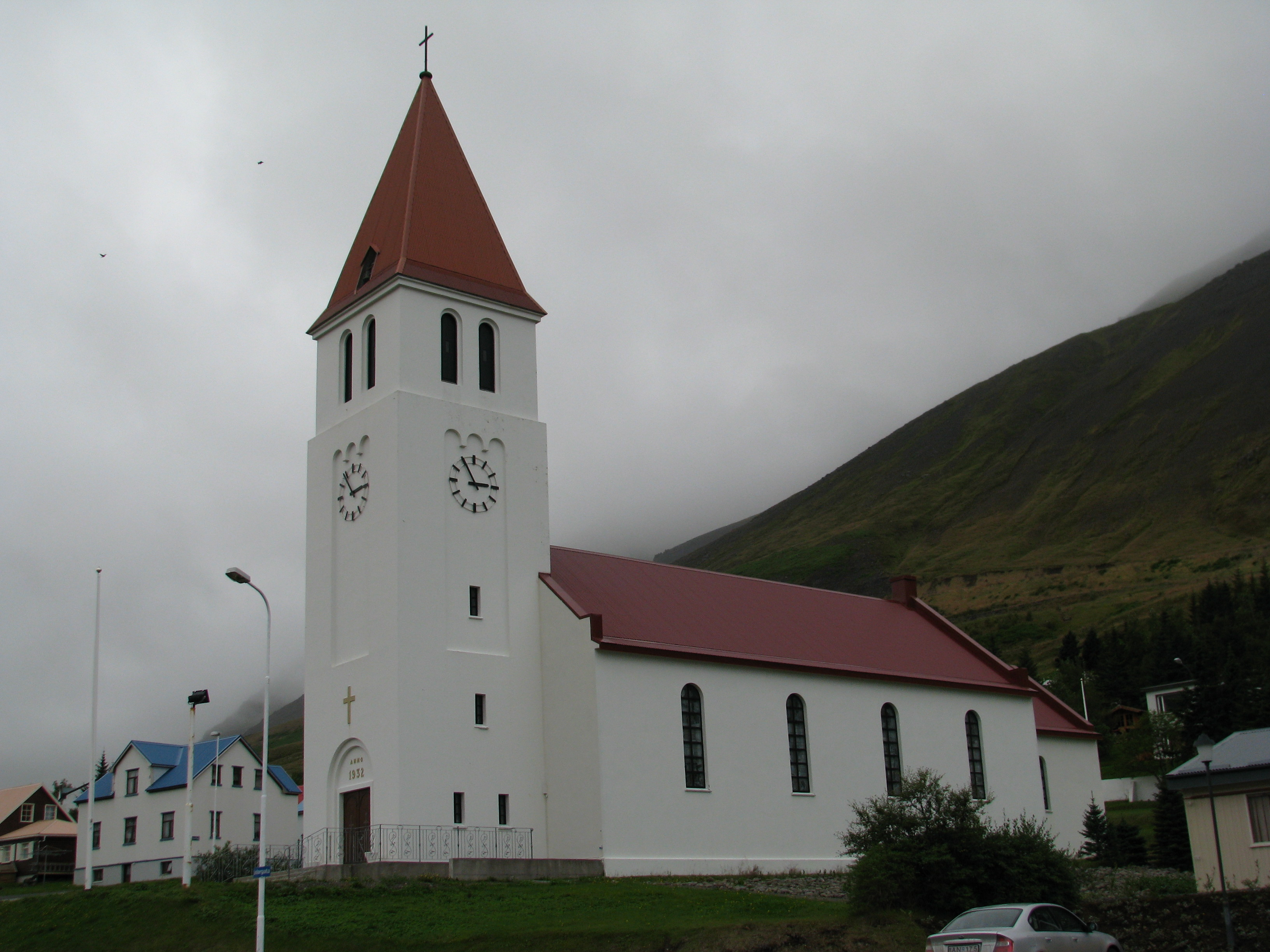 Siglufjardarkirkja, a church on Iceland